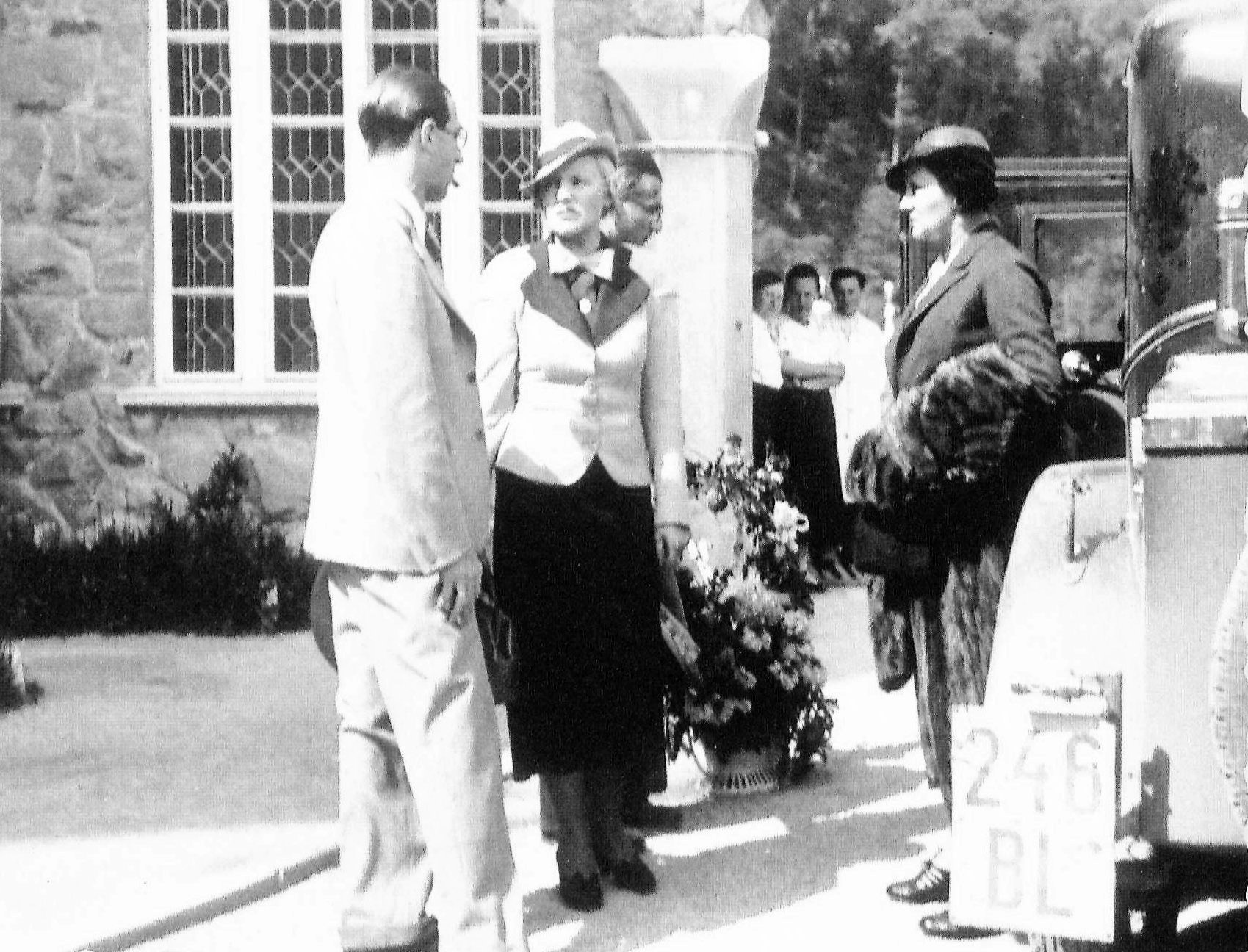 Gitta Alpár in the Palace Hotel, 1936, Lillafüred, Hungary